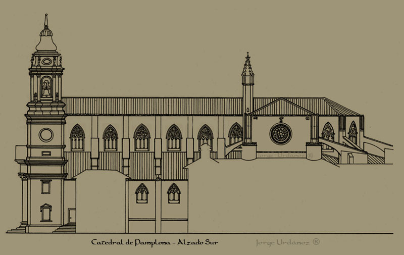 South facade elevation, cathedral of Pamplona